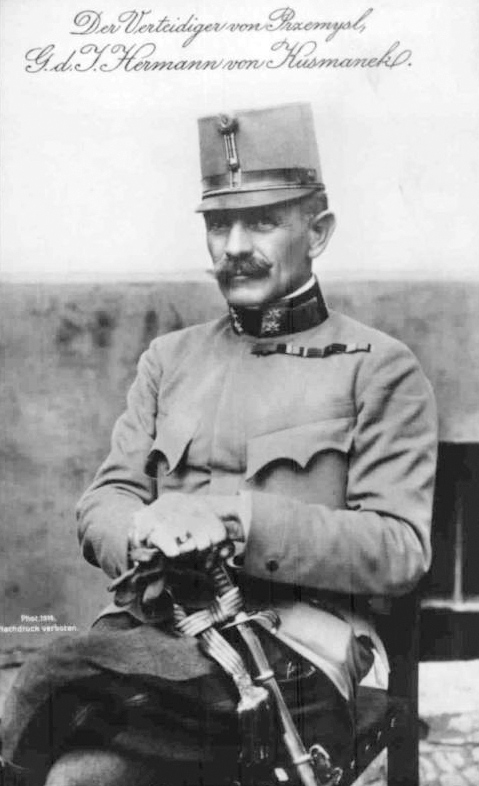 Hermann Kusmanek von Burgneustädten, G.d.I. General der Infanterie (Infantery General)